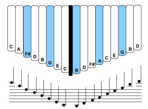 Mark Holdaway Kalimba Magic]